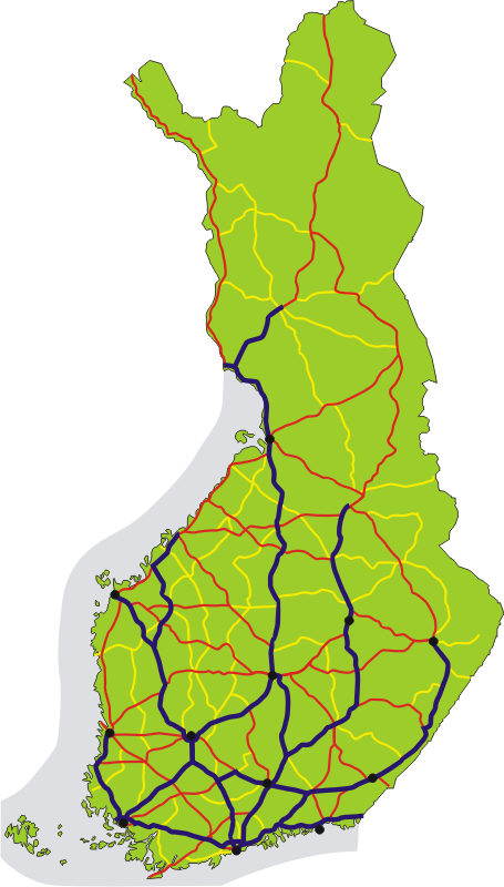 Map of the proposed trunk roads of national significance in Finland, shown in dark blue. National roads number 1–29 are red, 40–98 are yellow. Black dots show the 12 major urban areas.